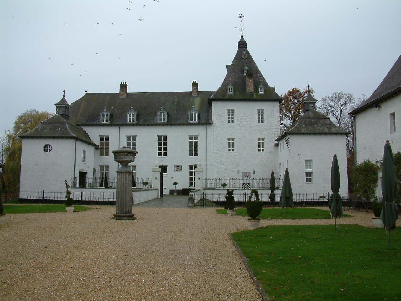 Rijckholt Castle